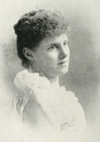 Photo of soprano Alice Esty, ca. 1893